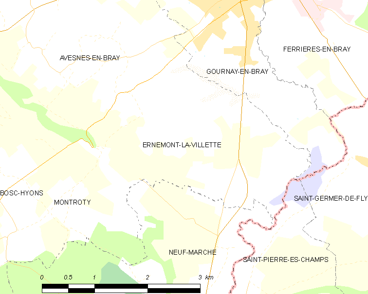 Map of French municipality Ernemont-la-Villette